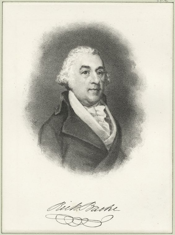 United States Postmaster General Richard Bache (1737-1811)